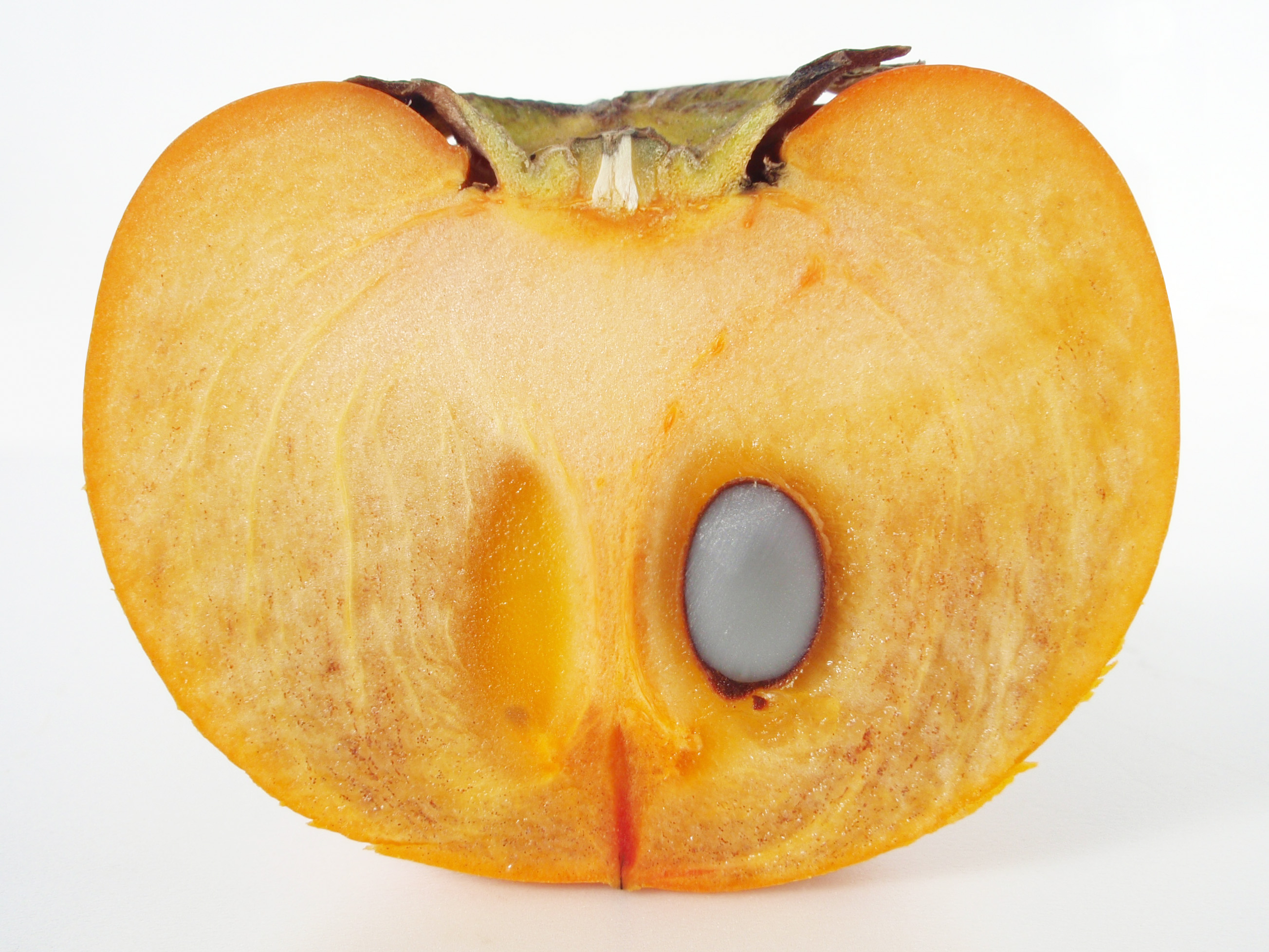 Diospyros kaki 'Fuyu'